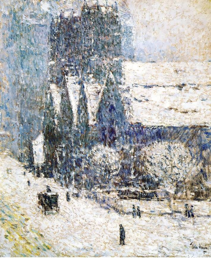 Painting, oil on canvas, of Calvary Church (Manhattan, New York City), painted by Frederick Childe Hassam (American, 1859-1935).